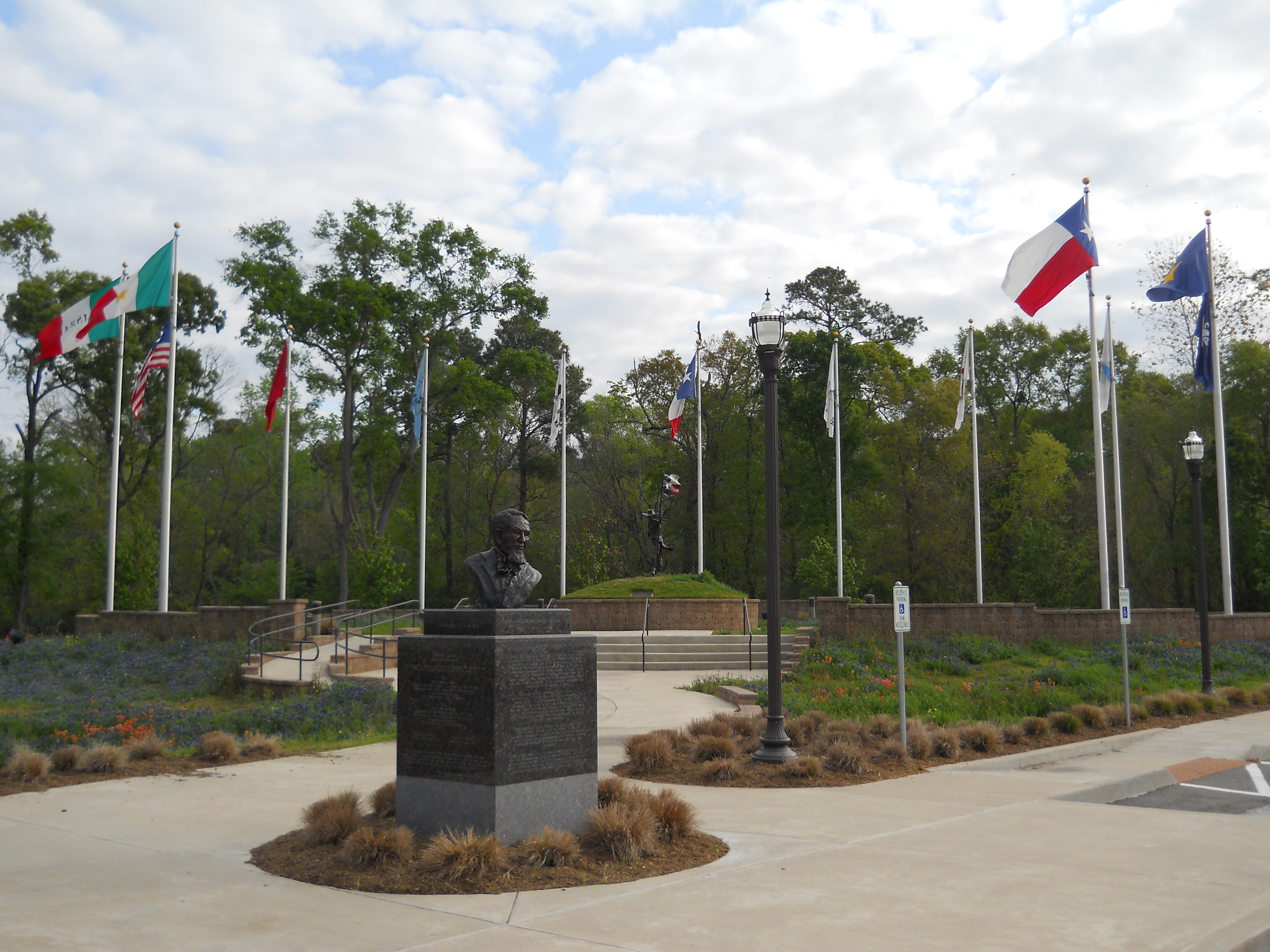 Lone Star Monument and Historical Flag Park, Conroe, TX.